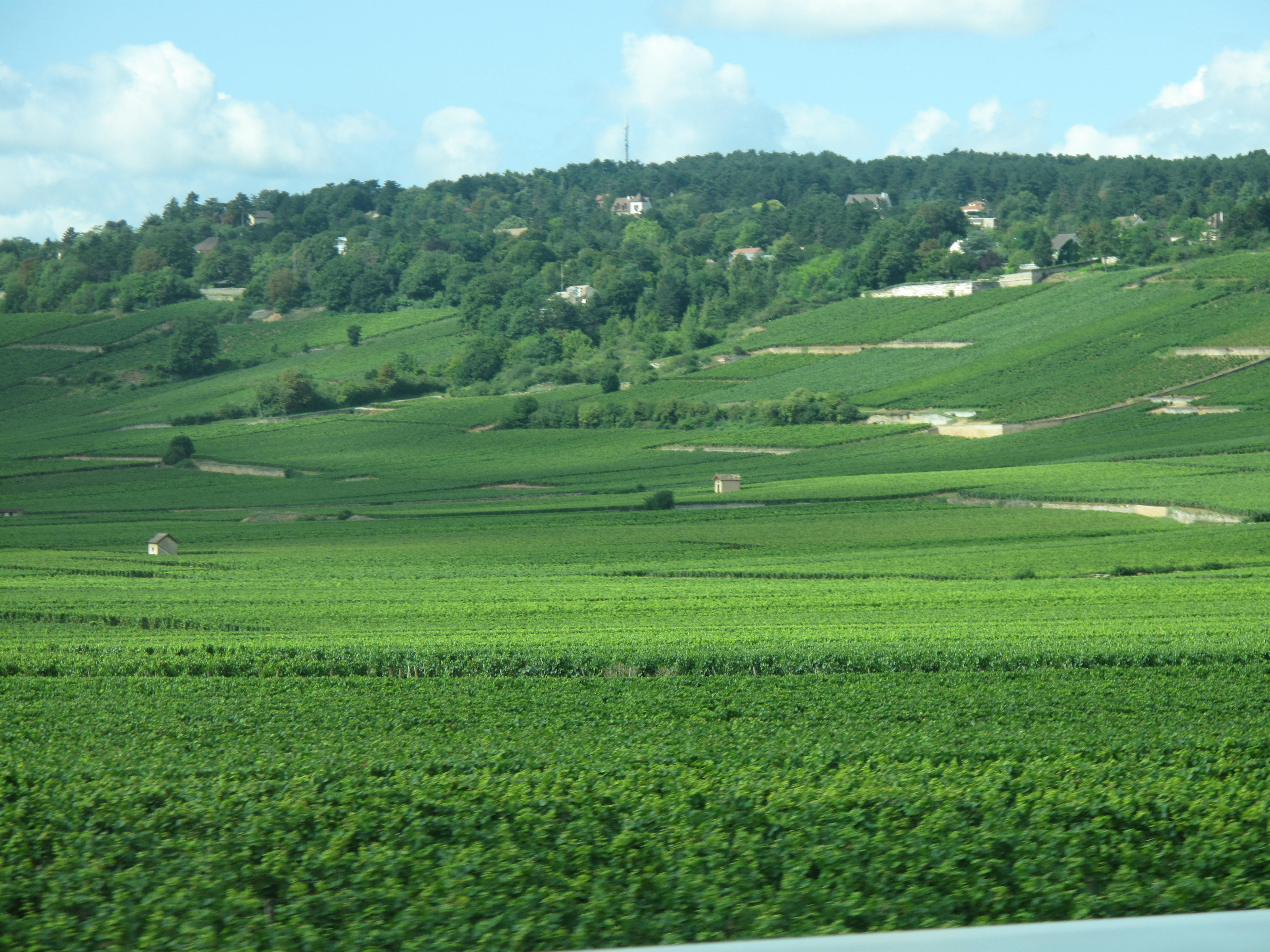 Vineyards near Beaune, Côte-d'Or, France